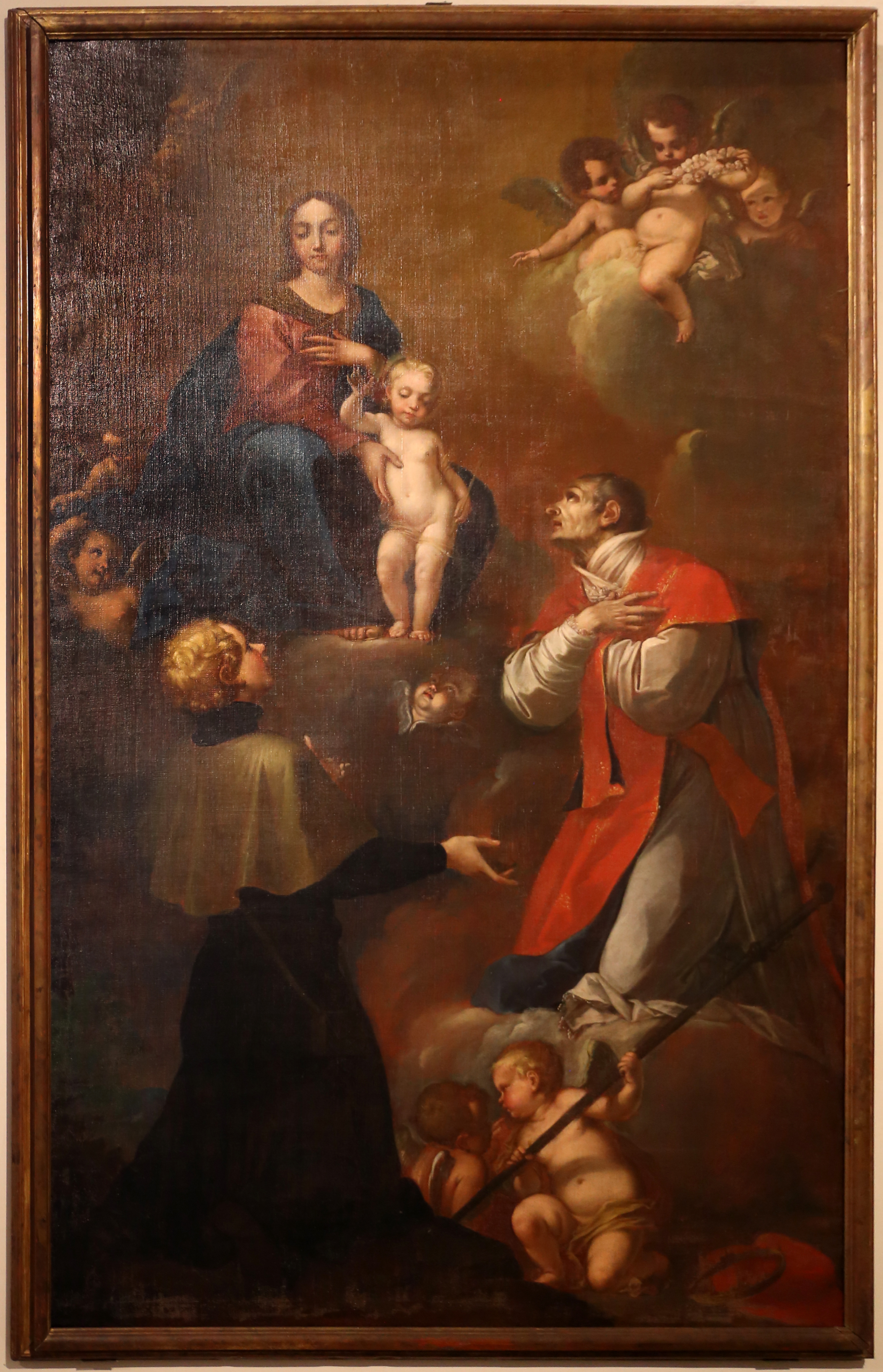 Collections of Palazzo Ducale (Mantua)